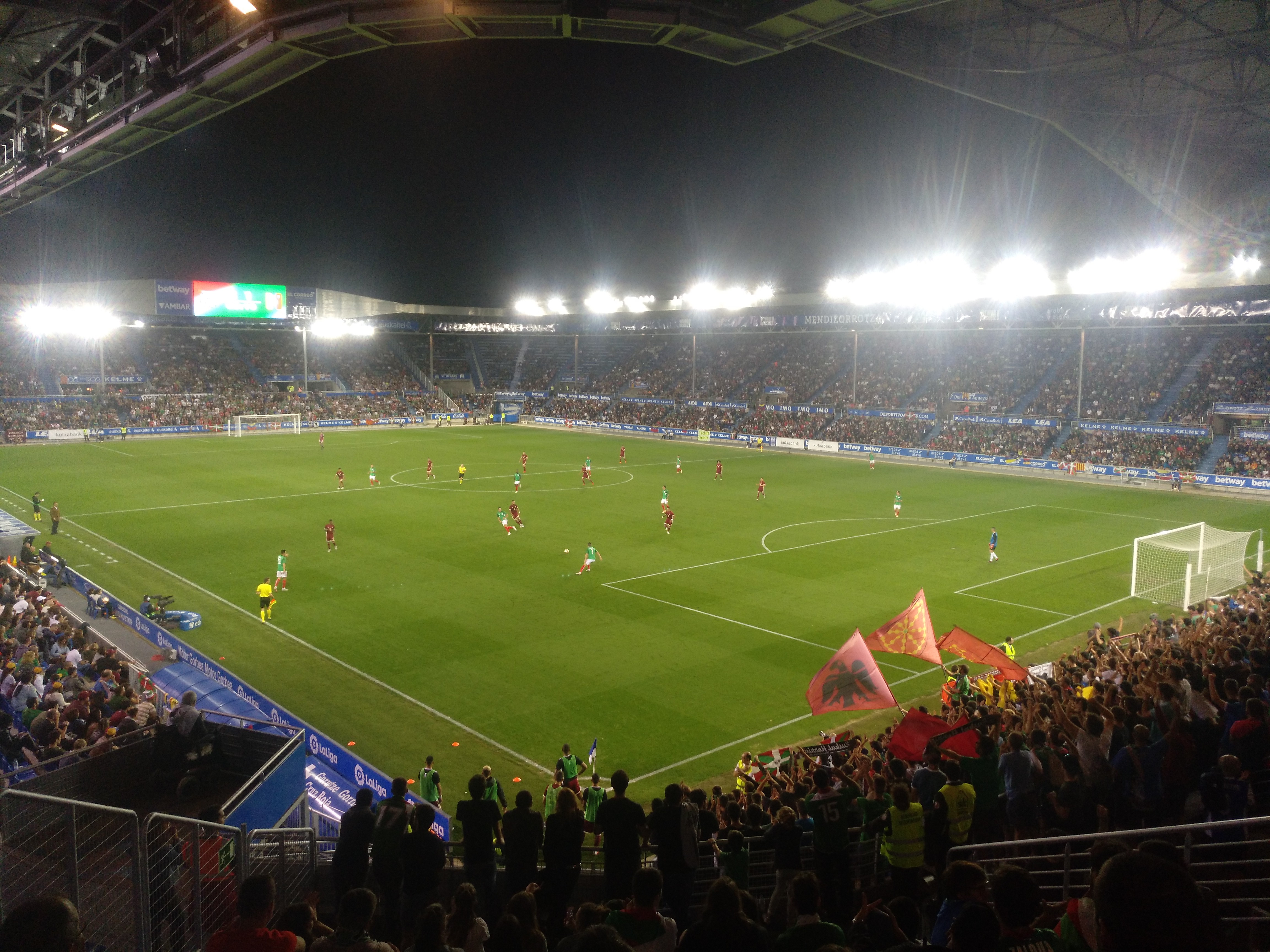 Basque Country national football team vs Venezuela national football team in Gasteiz. Basque Country won 4-2